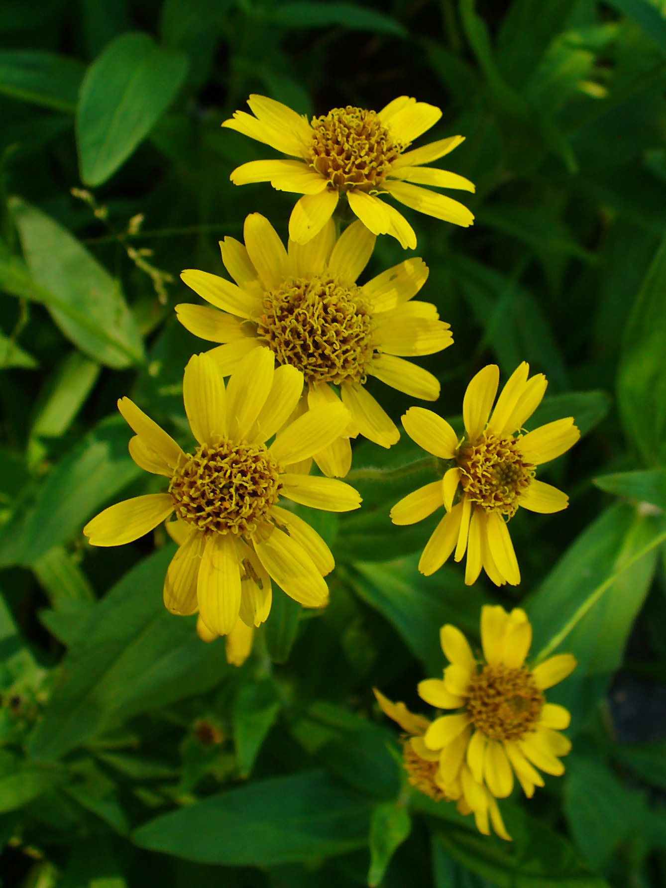 Arnica chamissonis, Asteraceae, Chamisso Arnica, inflorescences; Heidi’s Flower Trail, St. Moritz, Engadin, Switzerland, altidude ca. 2.000 m.